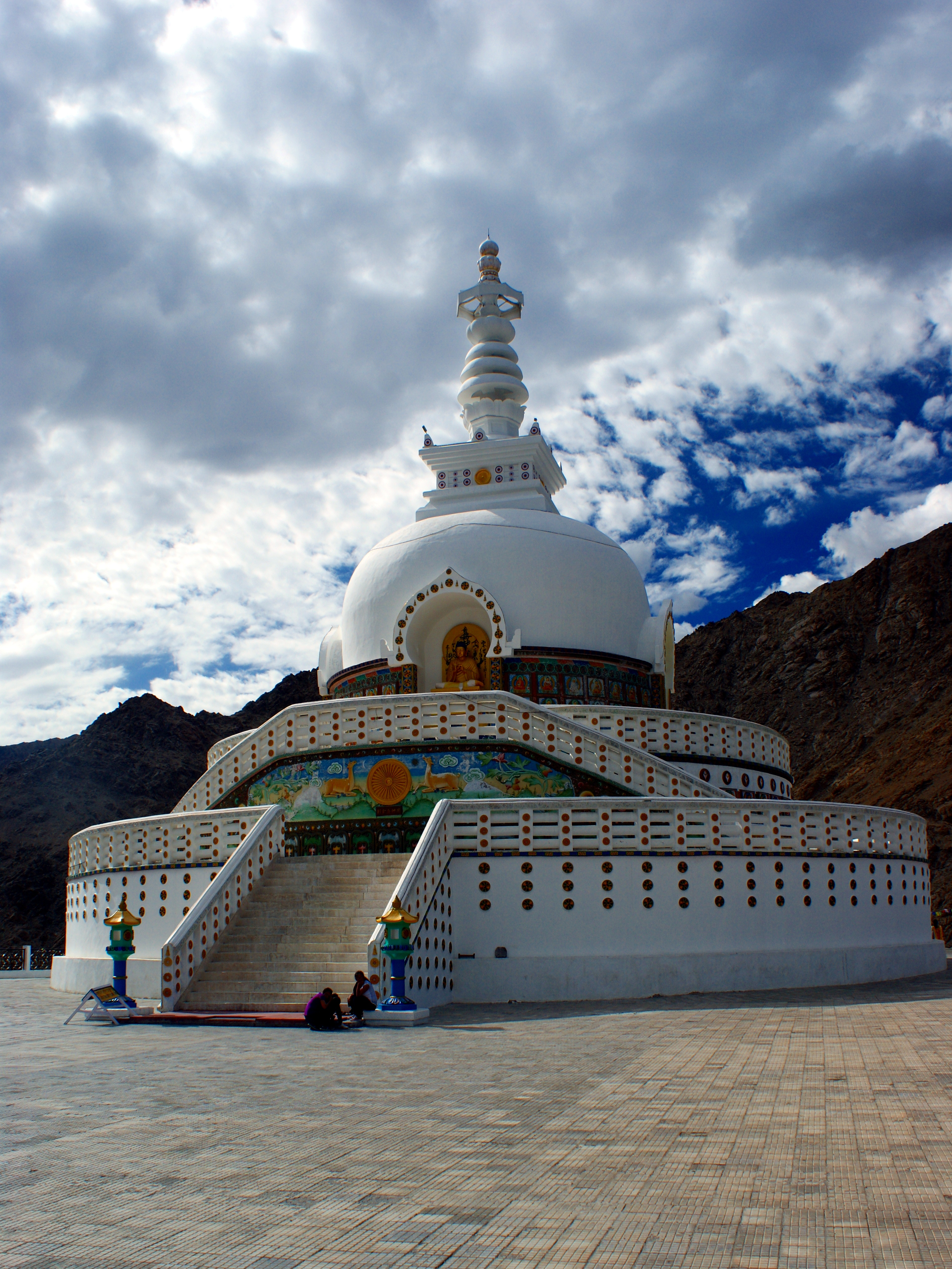 Shanti Stupa in Leh